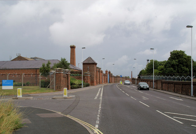 Haslar Road Looking north past the entrance to the QinetiQ Marine Technology Park, with Haslar Hospital on the right.